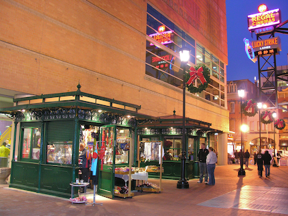 Gallery Place at Night